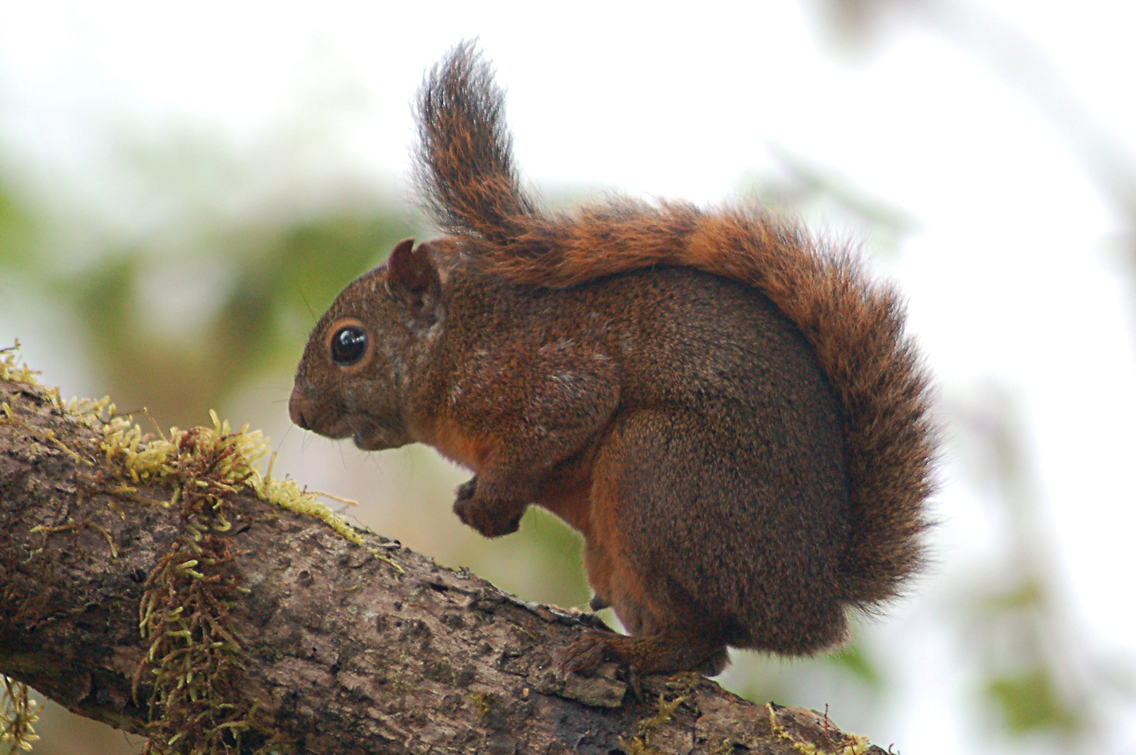 Red-tailed Squirrel (Sciurus granatensis) - 5 June 2015 - Bellavista Cloud Forest Lodge, Tandayapa, Pichincha Province, Ecuador